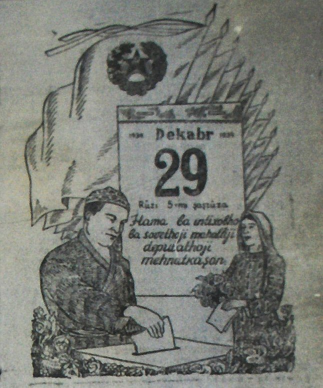 Modified from Image:Nasimi isfara (5).JPG. Original author: Ibrahim Rustamov.